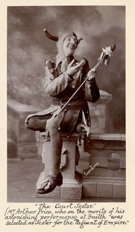 Ffotograffydd/Photographer: P. B. Abery (1877?-1948) & Wallace Jones Dyddiad/Date: 11th August 1909 Nodyn/Note: Mr Arthur Pruce, who on the merits of his astonishing performance at Builth was selected as Jester for the 'Pageant of Empire'. Cyfrwng/Medium: Photographic print Cyfeiriad/Reference: pba01995 Rhif cofnod / Record no.: 3590090 This image is taken from the Builth Wells Historical Pageant photograph album, which includes approximately 160 photographs, newspaper cuttings and other ephemera of the majestic pageant which was performed at the grounds of Llanelwedd Hall on 11 August 1909. The photographs were taken by P B Abery and Wallace Jones. The pageant was an epic production. According to a transcript included in the album, it took a year to prepare, over a 1000 people took part in the event, and it is reported to have been witnessed by a crowd of around 5000. Daw'r ffotograff yma o lyfr ffoto Pasiant Llanfair ym Muallt, sy'n cynnwys tua 160 o ffotograffau, toriadau’r wasg ac effemera sy’n ymwneud â’r pasiant mawreddog a berfformiwyd ar faes Neuadd Llanelwedd ar 11 Awst 1909. Tynnwyd y ffotograffau gan P B Abery a Wallace Jones. Roedd y pasiant yn ddigwyddiad ysblennydd. Yn ôl adysgrif sydd wedi ei chynnwys yn yr albwm, cymerodd flwyddyn i baratoi’r digwyddiad, bu 1000 o bobl yn rhan o’r paratoadau, ac adroddir fod tyrfa o tua 5000 yn ei wylio. Rhagor o wybodaeth am gasgliad P B Abery yn Llyfrgell Genedlaethol Cymru More information about the P B Abery Collection at the National Library of Wales